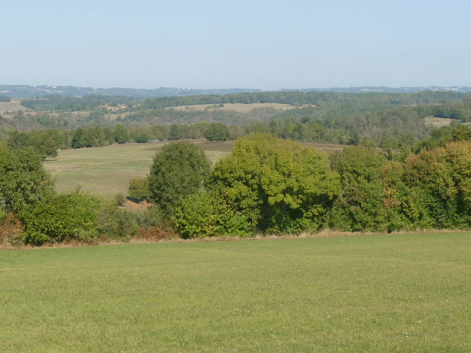 Limousin countryside landscape at Eymouthiers, Charente, SW France